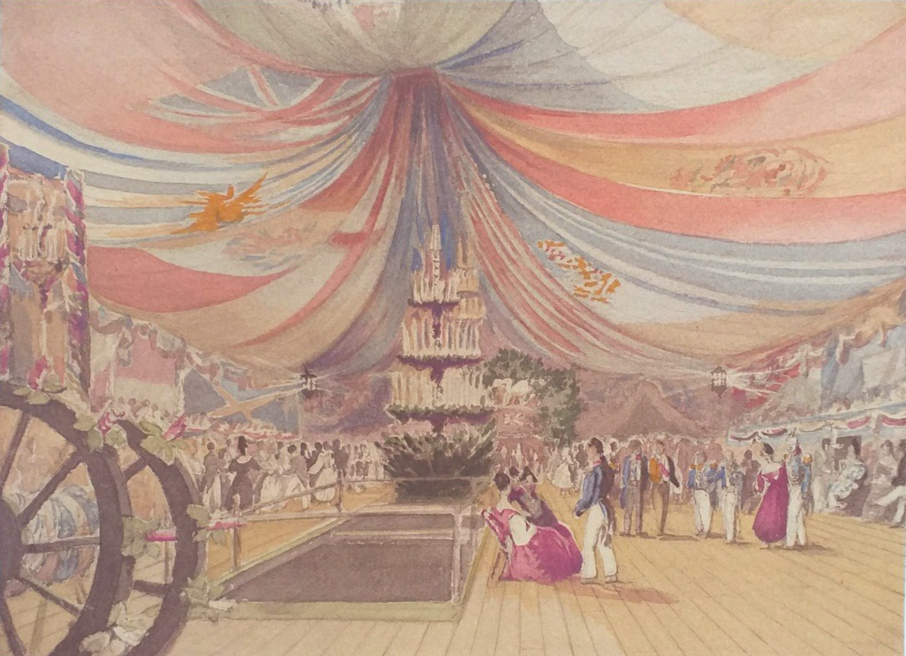 Artist's title was "Sketch of the Ball given by Admiral Sir G.E. Hamond to Lord Auckland on board HMS Dublin in Rio de Janeiro - E.E. Vidal - 20 November 1835"